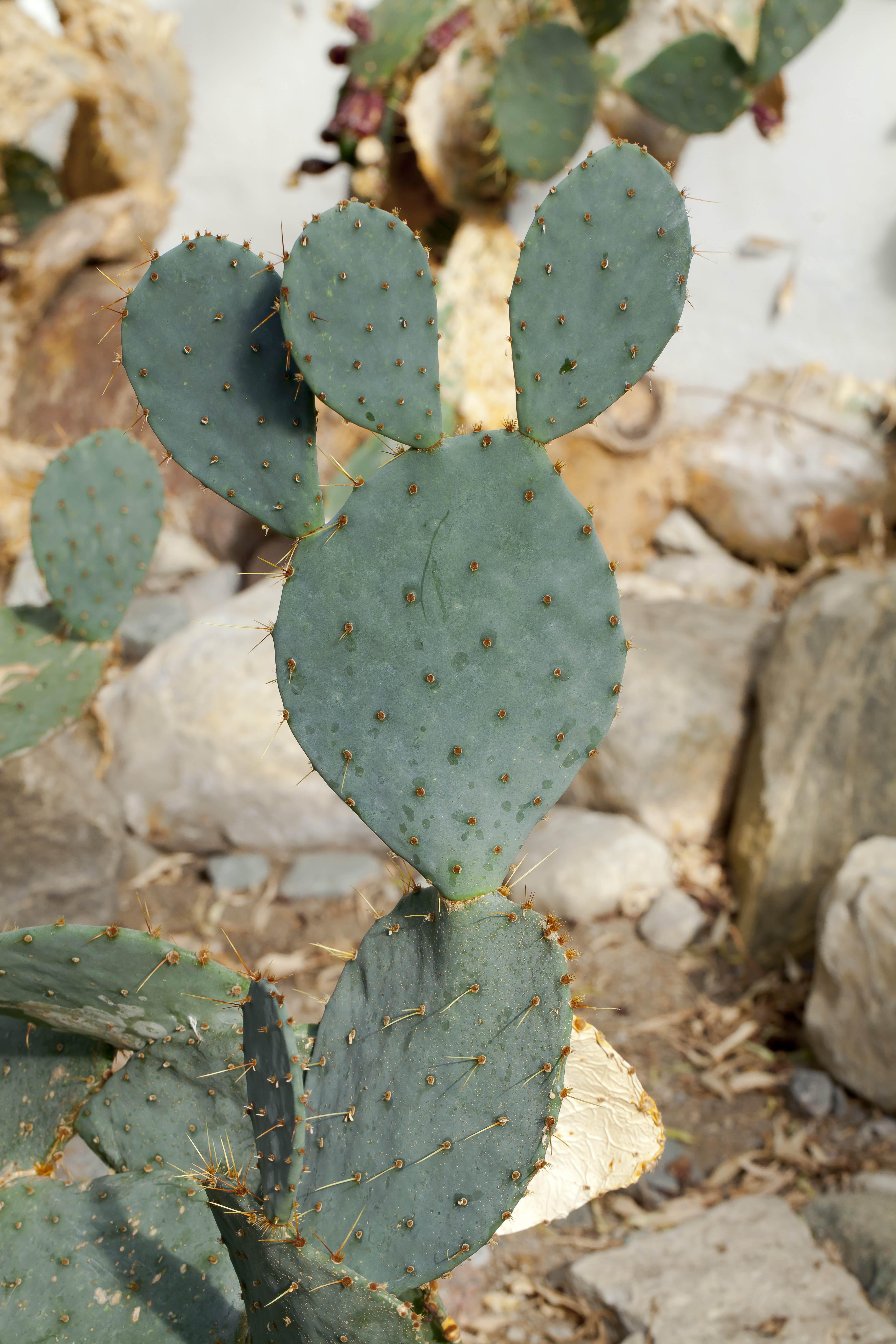 Tulip prickly pear (Opuntia phaeacantha), Botanic Conservatory, Fort Wayne, USA